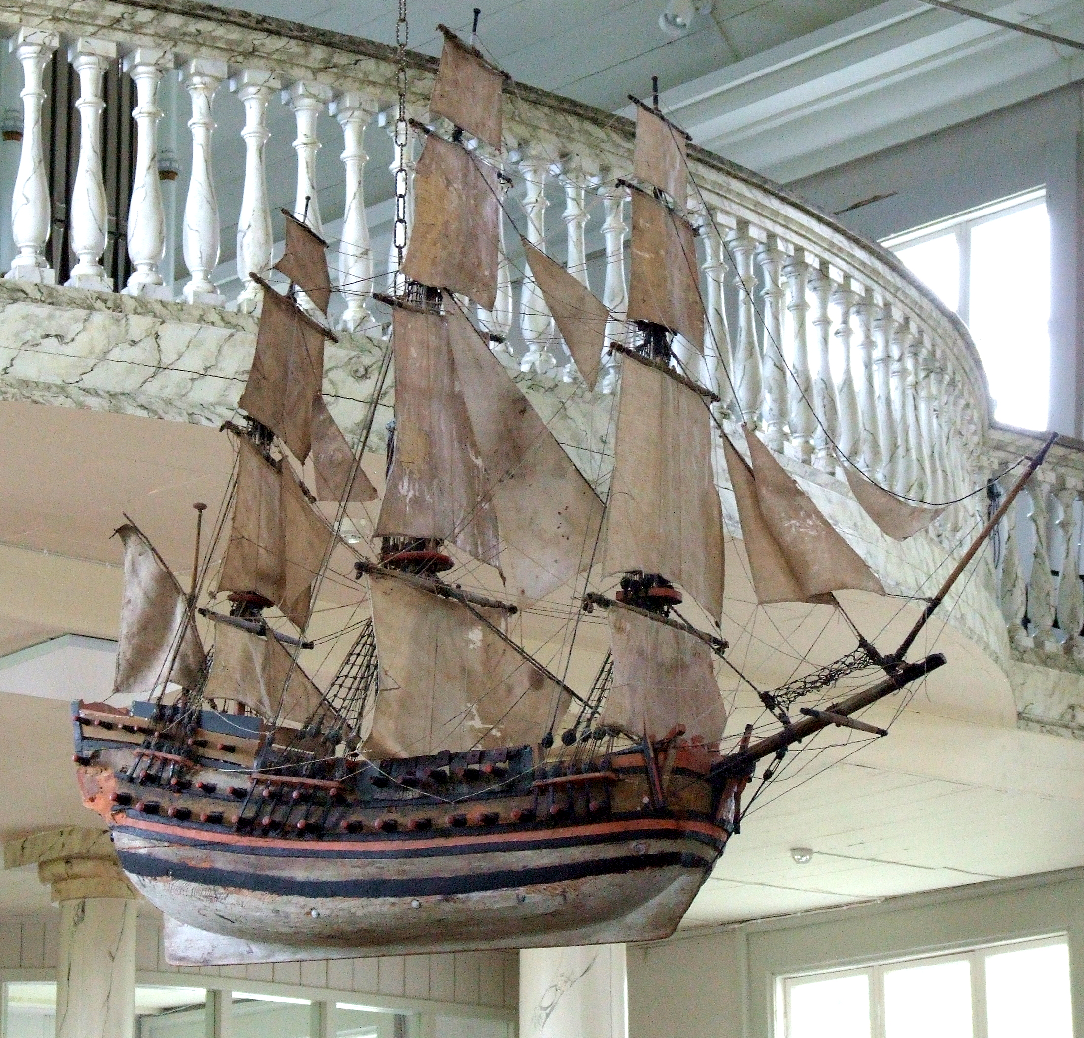 The votive ship in Liminka church, Finland